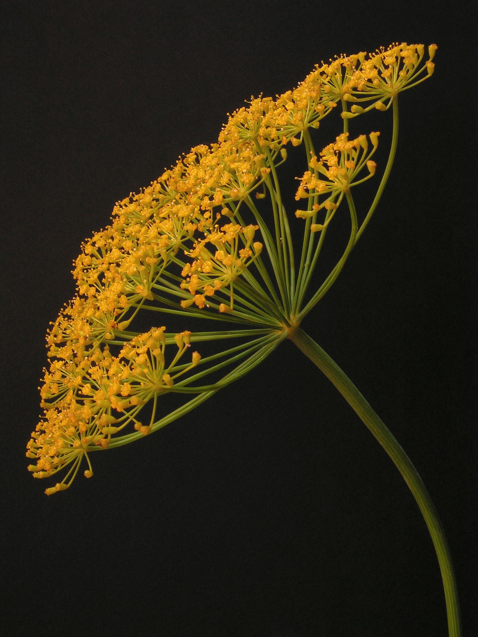 Compound inflorescence of Dill (diameter of the inflorescence is appr. 10 cm). Moscow region, Russia.